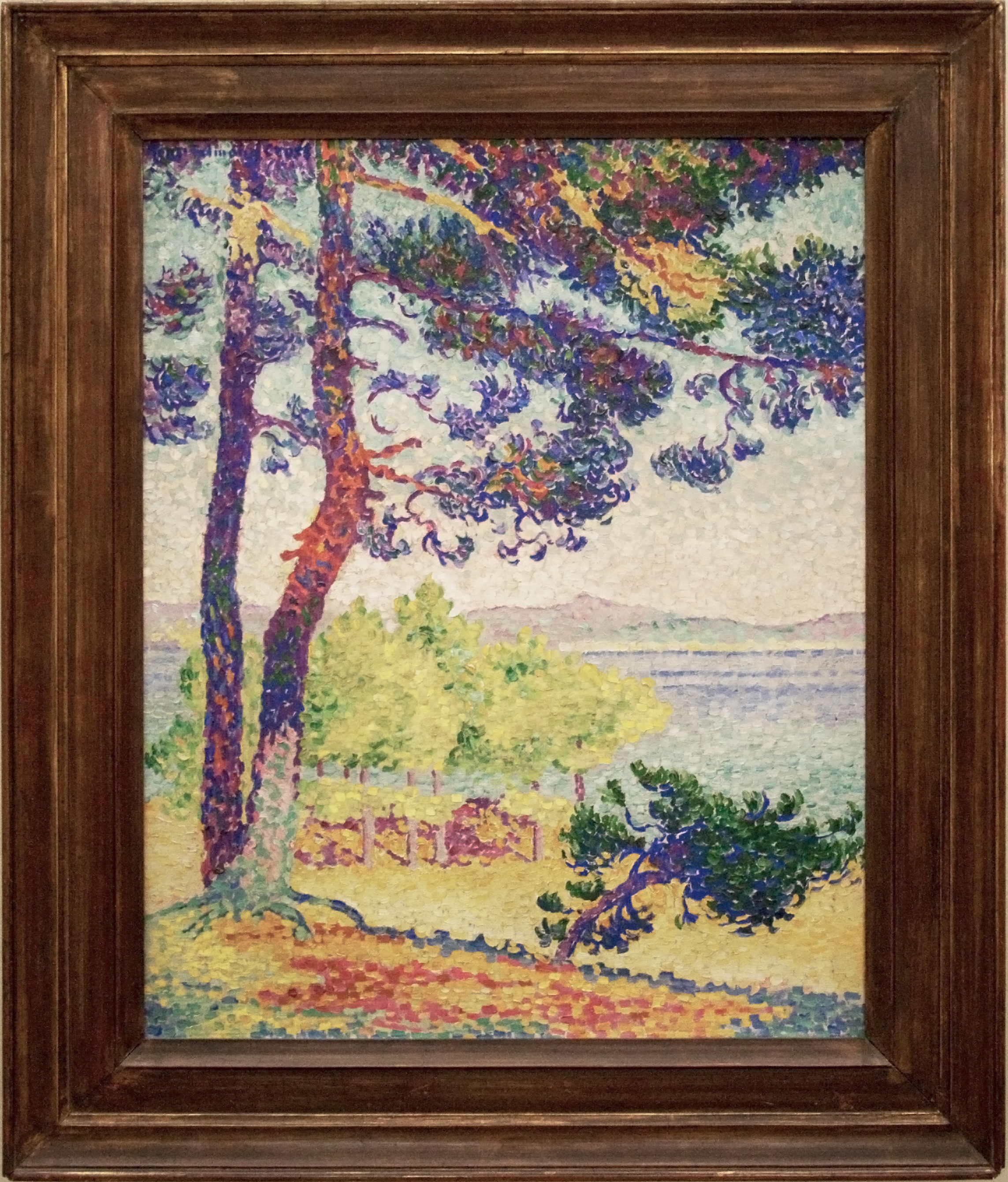 Painting of Cross in the Orsay Museum, Paris